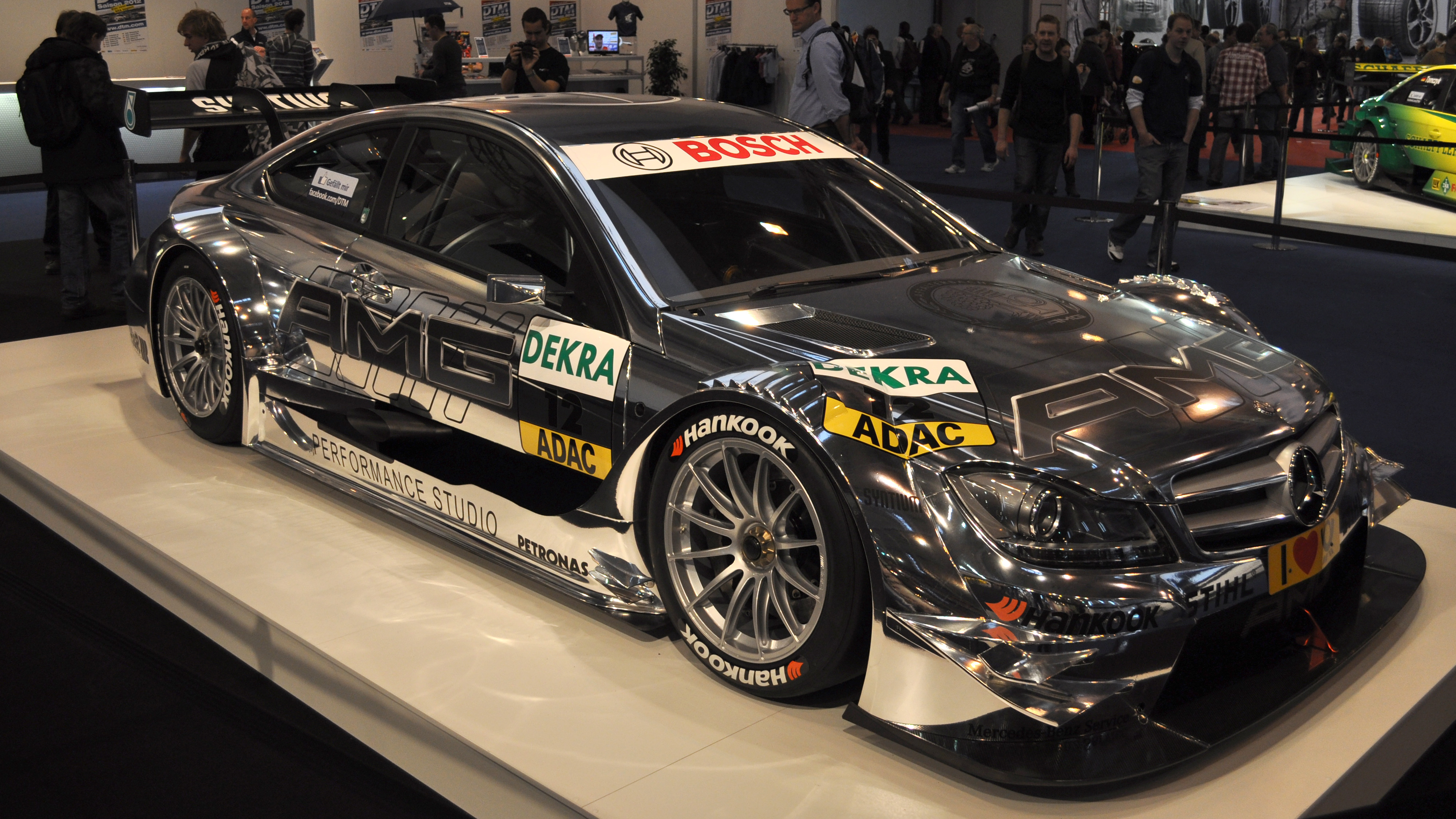 DTM AMG Mercedes C-Coupé 2012 (C204) at the Essen Motor Show 2011